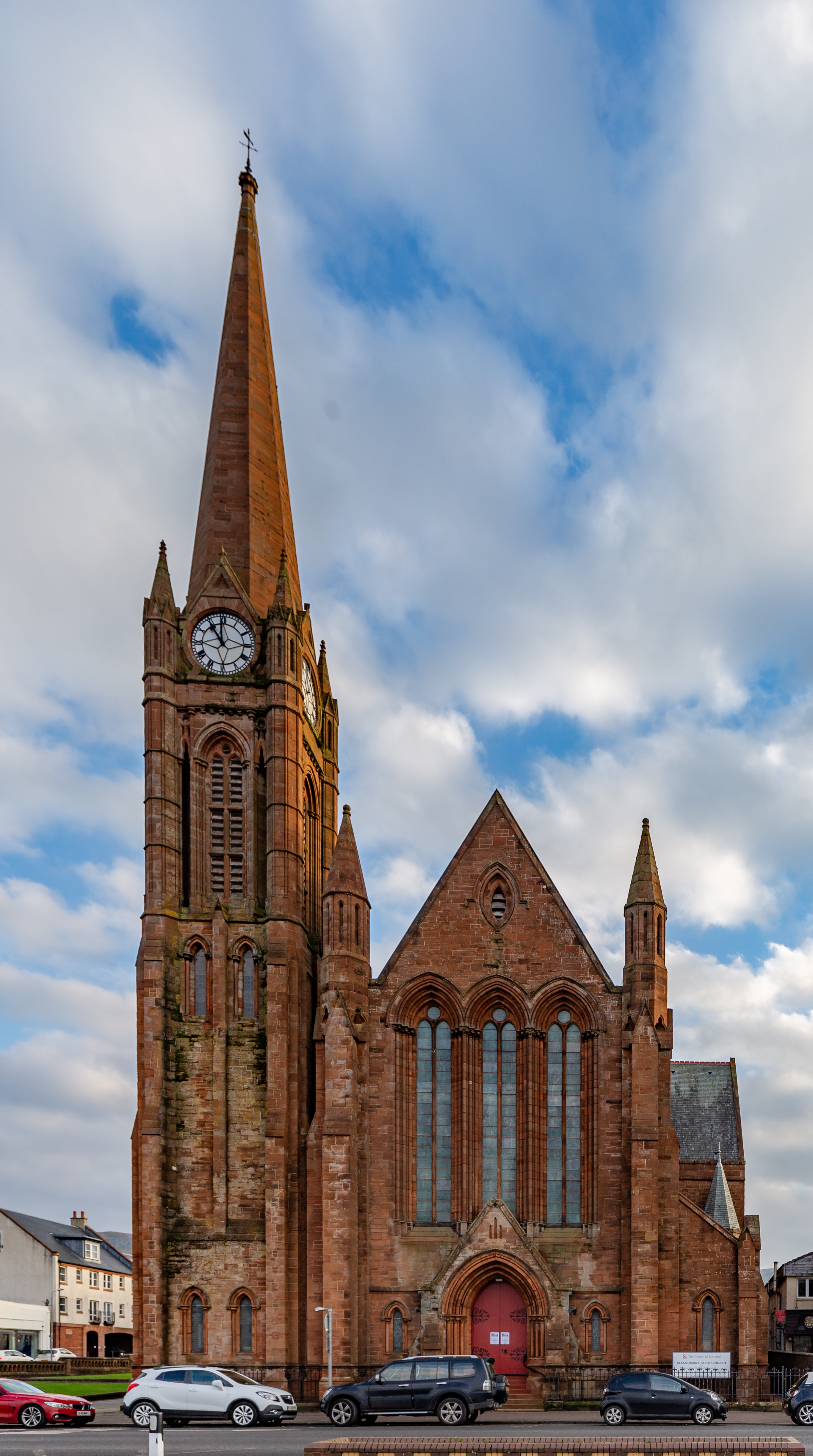 Gallowgate Street St Columba's Parish Church, Largs, North Ayrshire, Scotland